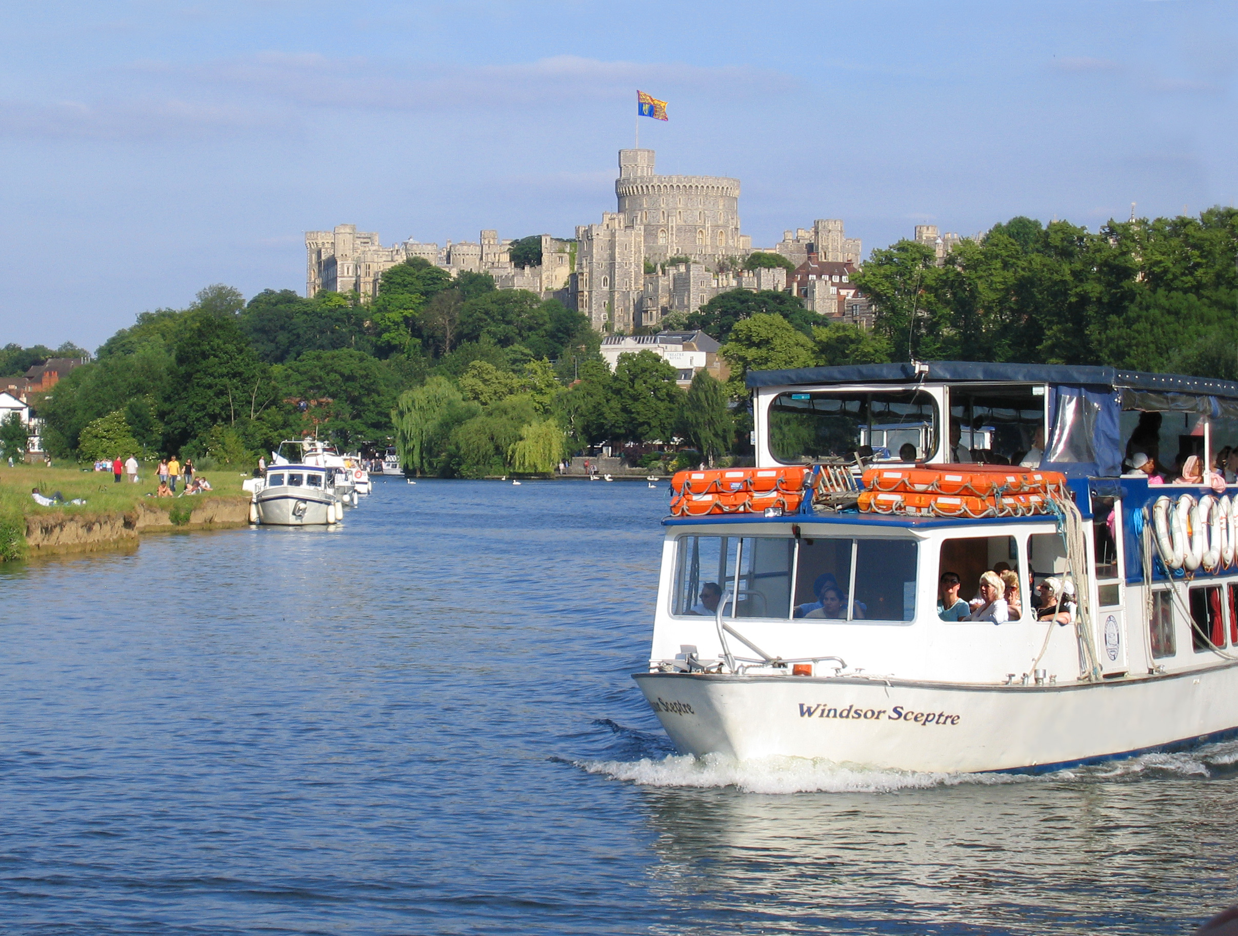 Windsor Sceptre. Passenger vessel used for public boat trips from Windsor